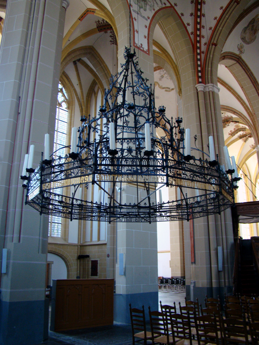 Chandelier in the St Walburgis Church in Zutphen